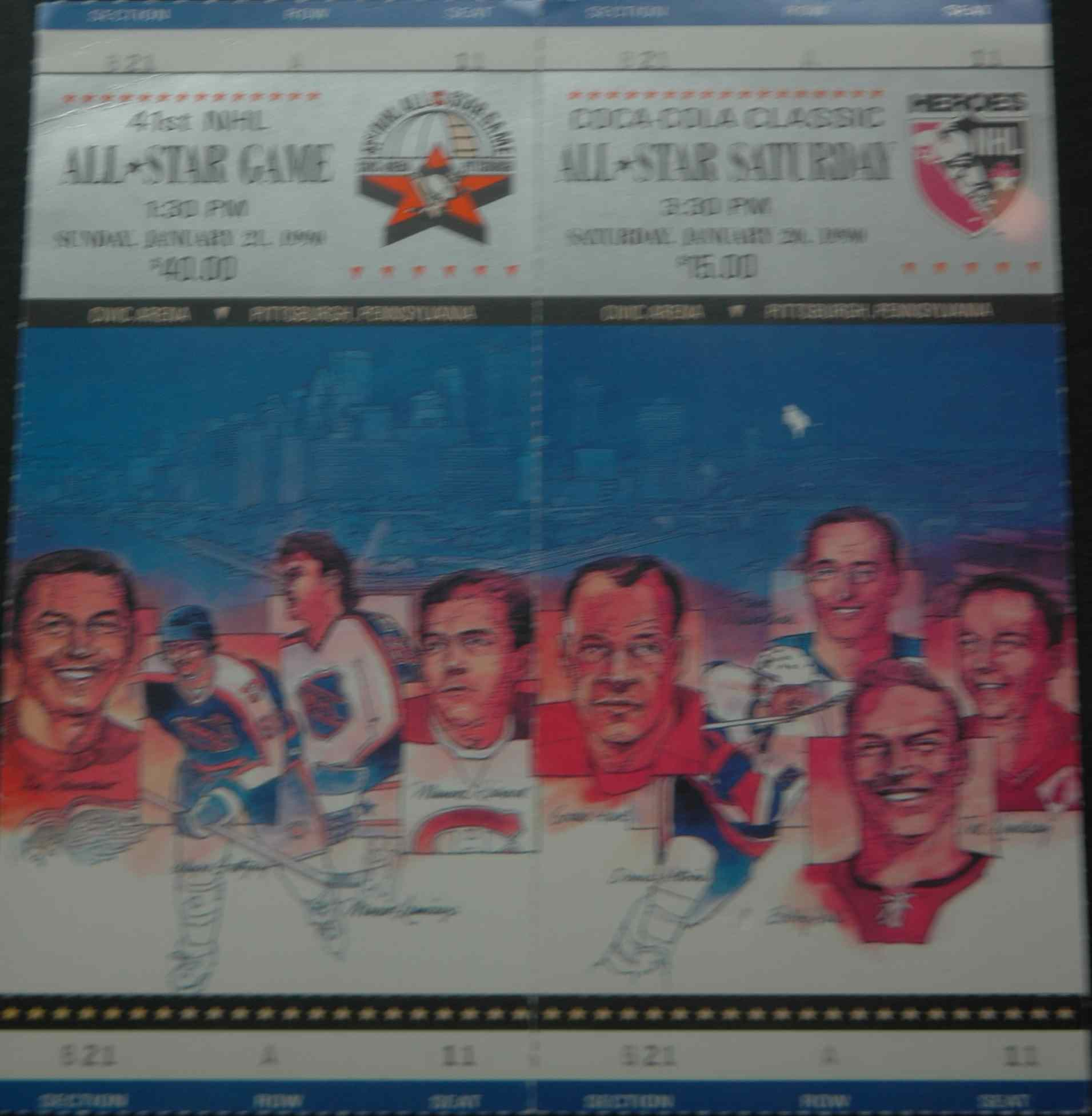 Ticket for the NHL All-Star Game 1990, shown in the Hall of Fame in Toronto